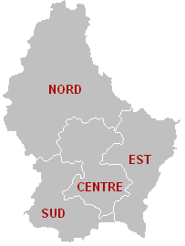 A map of the Chamber of Deputies circonscriptions (circonscriptions électorales) of Luxembourg.